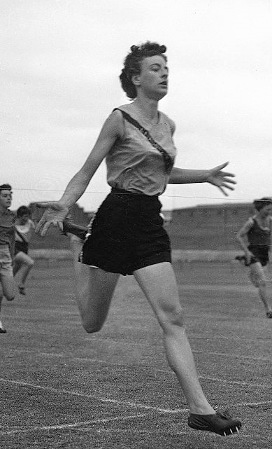 Australian athlete Marjorie Jackson competing at a club meeting at the Sydney Sportsground on 12 January 1952 SMH SPORT Picture by STAFF